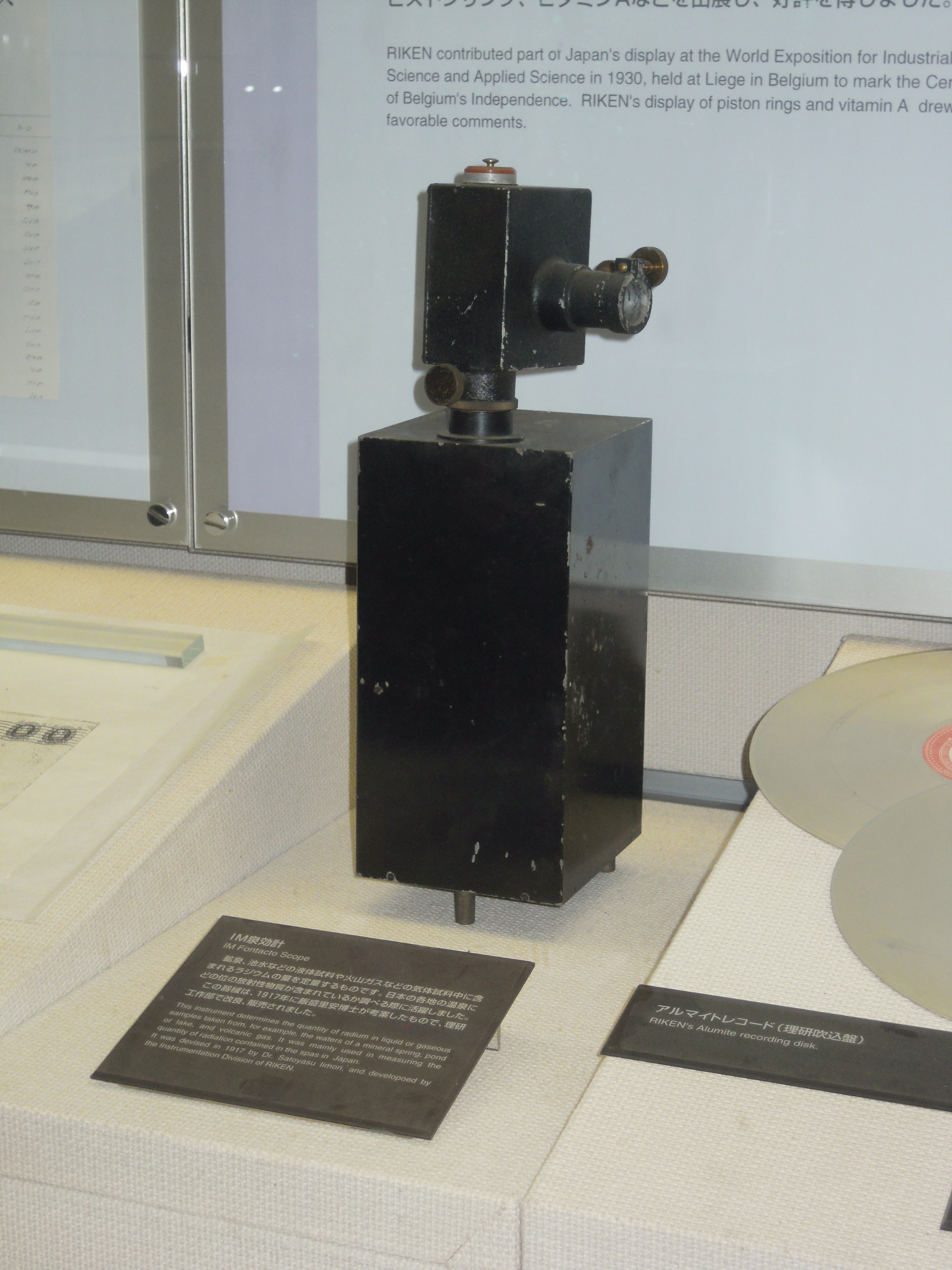 IM-Fontacto Scope developed by Dr. Iimori